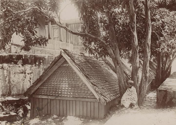 "Seven aligned tombs" (Tranofitomiandalana or Fitomiandalana), the tombs of early 17th- and 18th-century kings of Imerina who ruled from the Rova of Antananarivo, Madagascar.